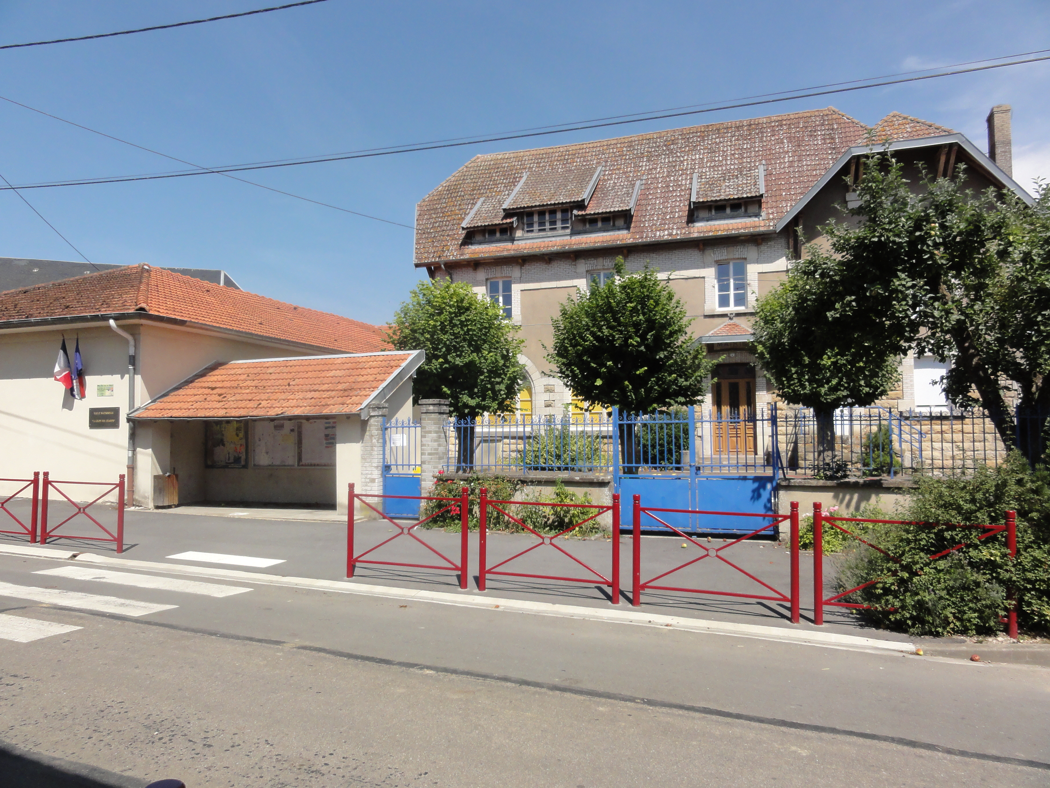 Foameix-Ornel (Meuse) mairie-école